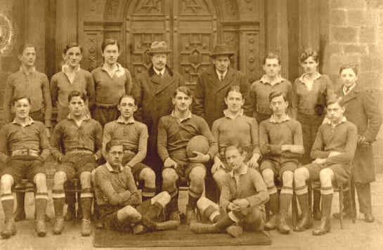 Rugby team of Serbian students in Georg Heriot school in Scotland 1918